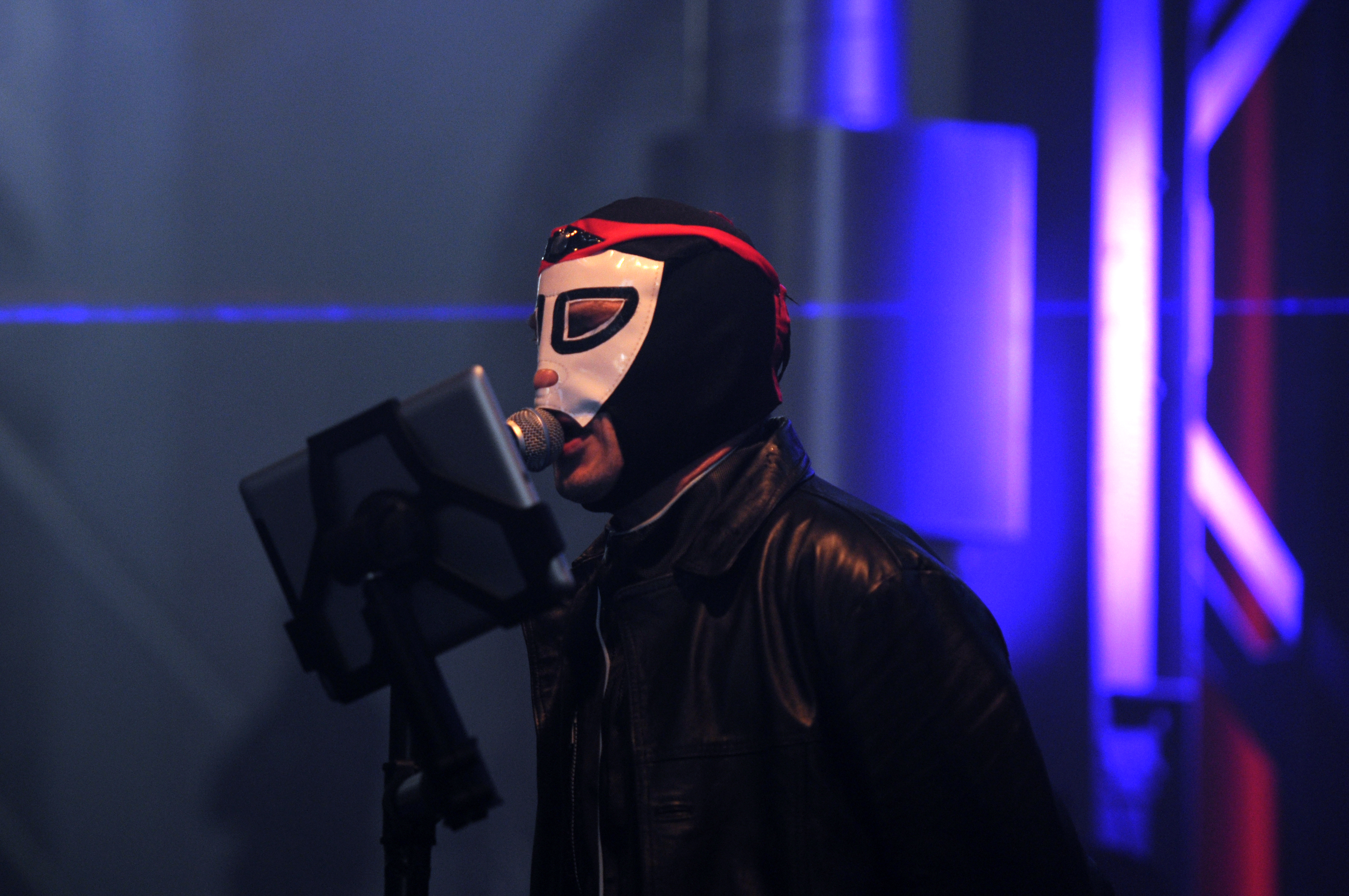 Tyske Luddern at e-tropolis 2014, Oberhausen